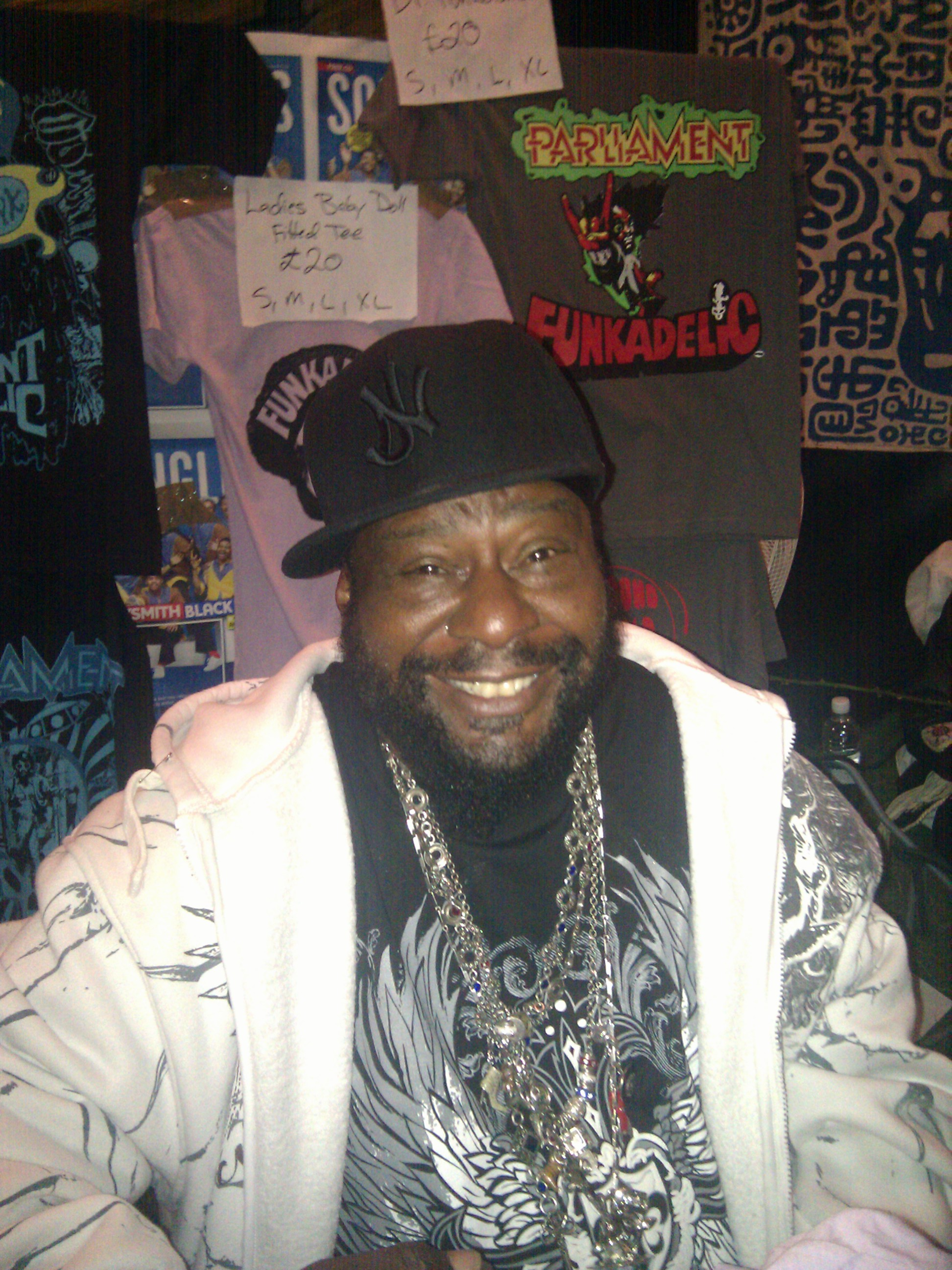 George Clinton signing t-shirts at Glastonbury 2010